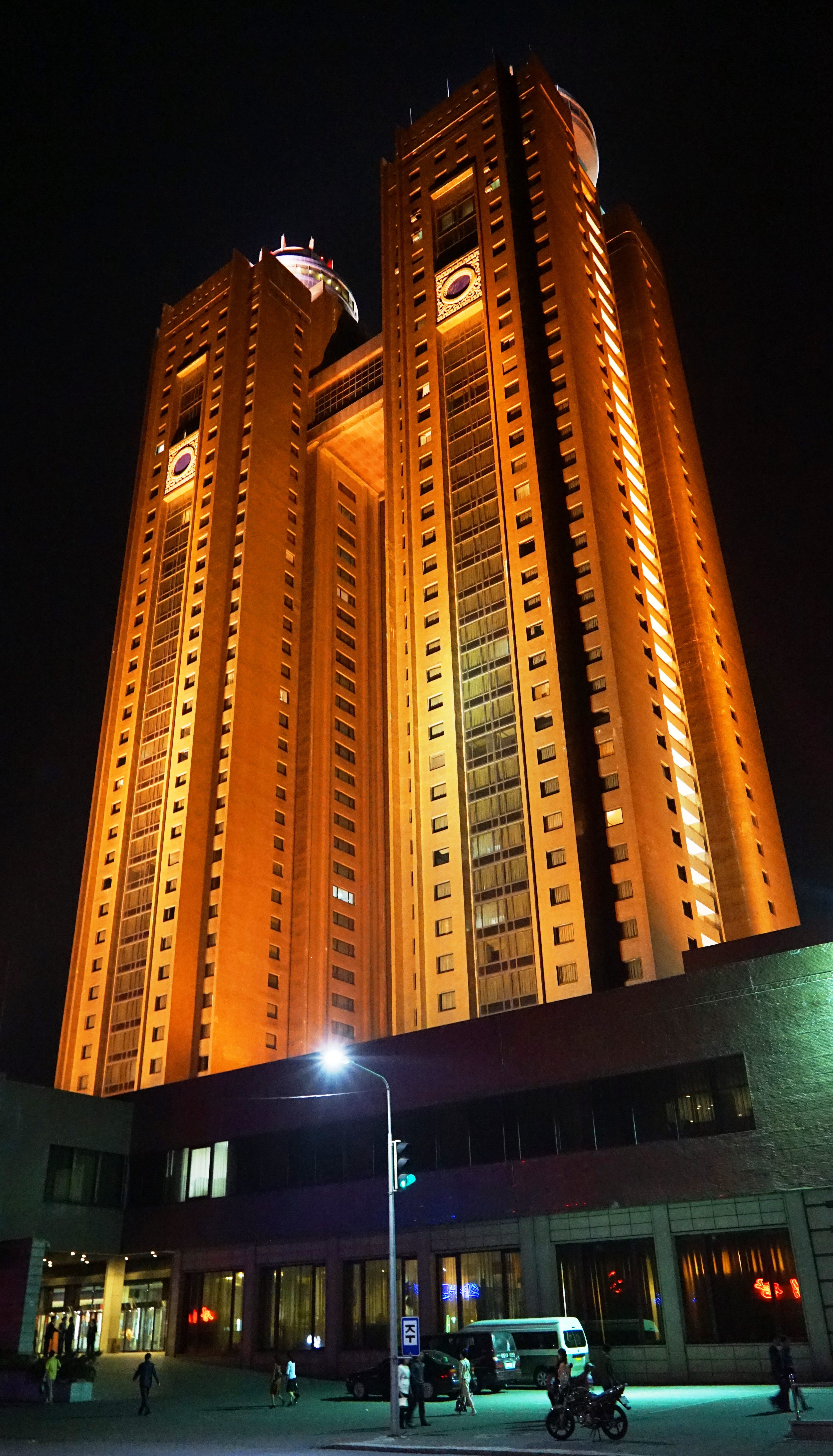 Night view of Pyongyang Koryo Hotel